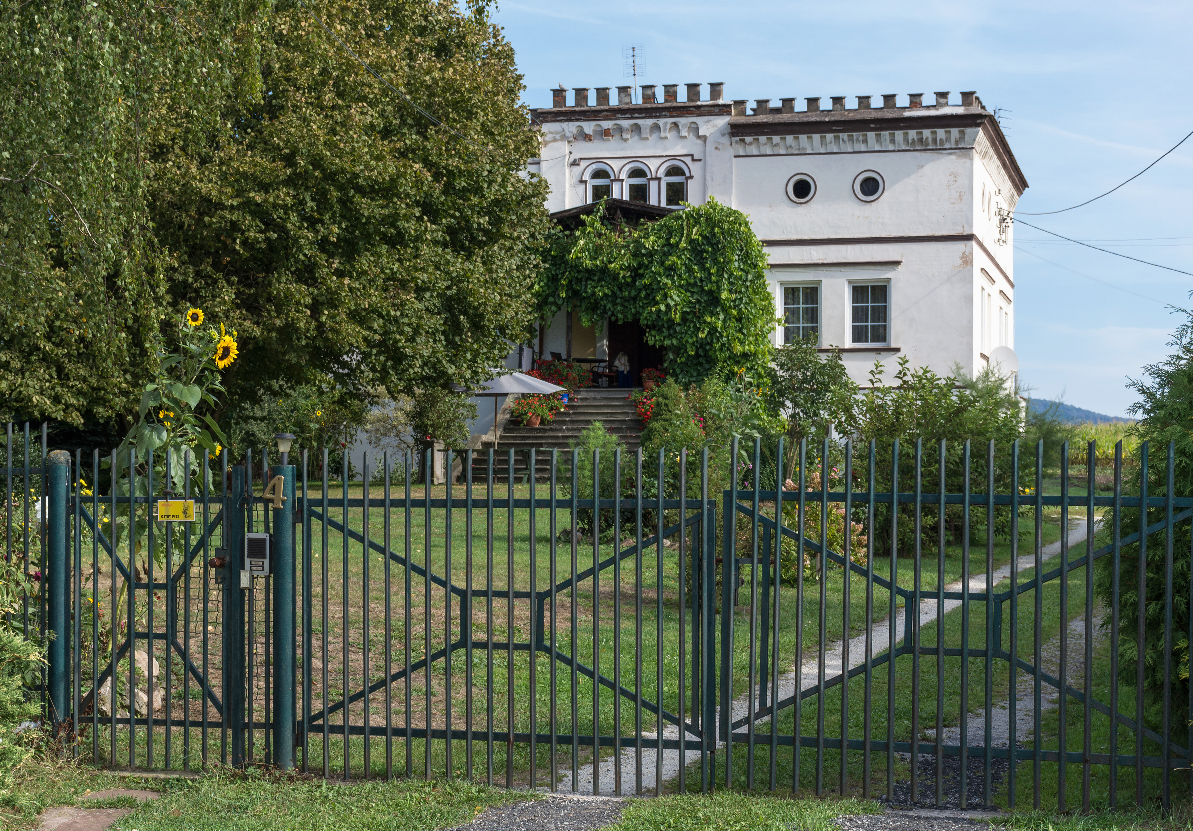 Manor in Święcko